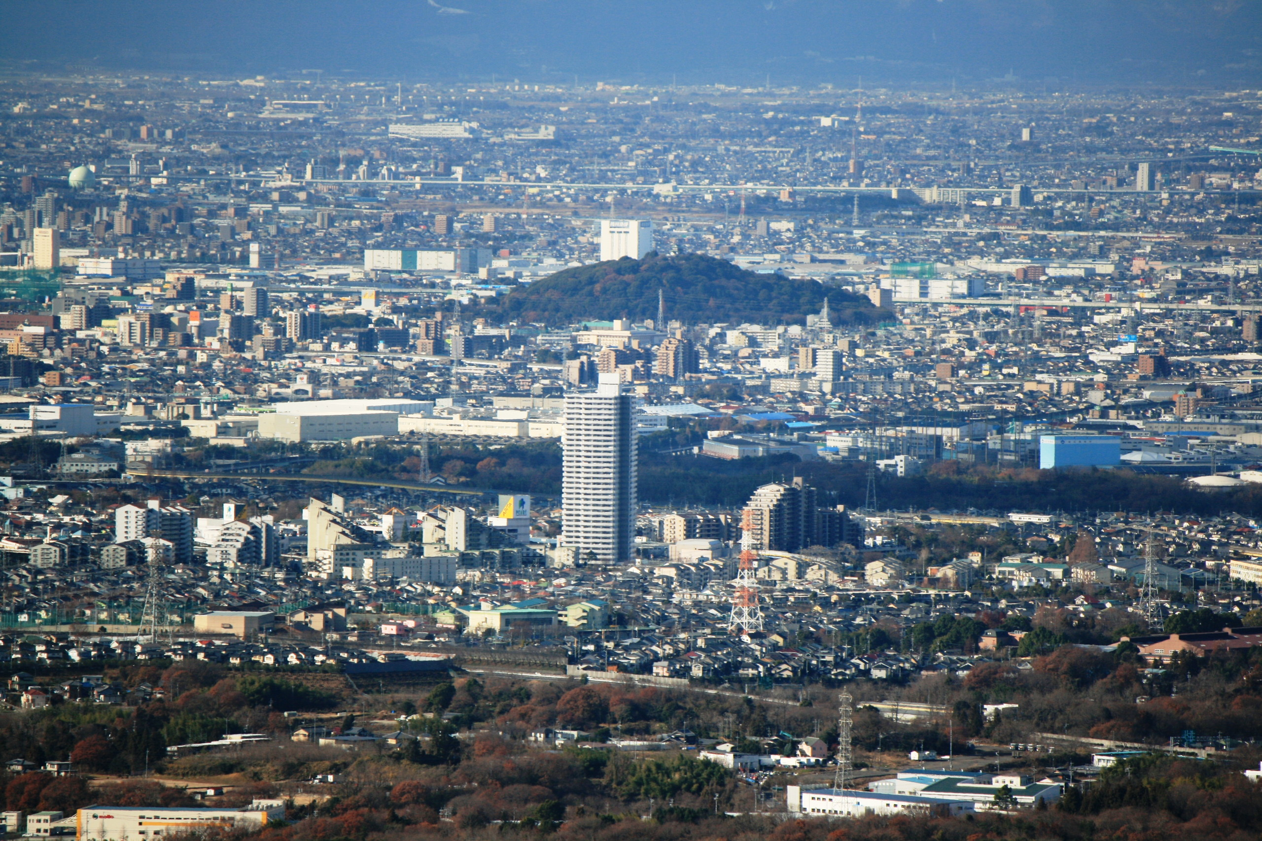 Mount Komaki from Mount Miroku